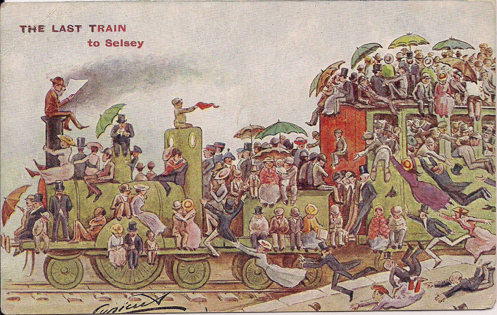 Hundred of Manhood and Selsey Tramway